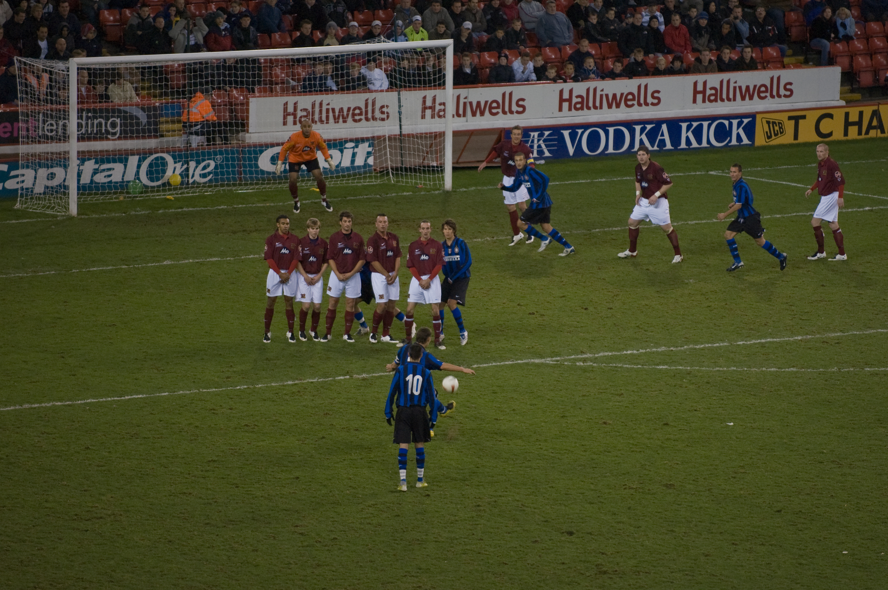 Sheffield FC's friendly match against Inter at Bramall Lane, staged to celebrate the 150th anniversary of the oldest football club in the world.